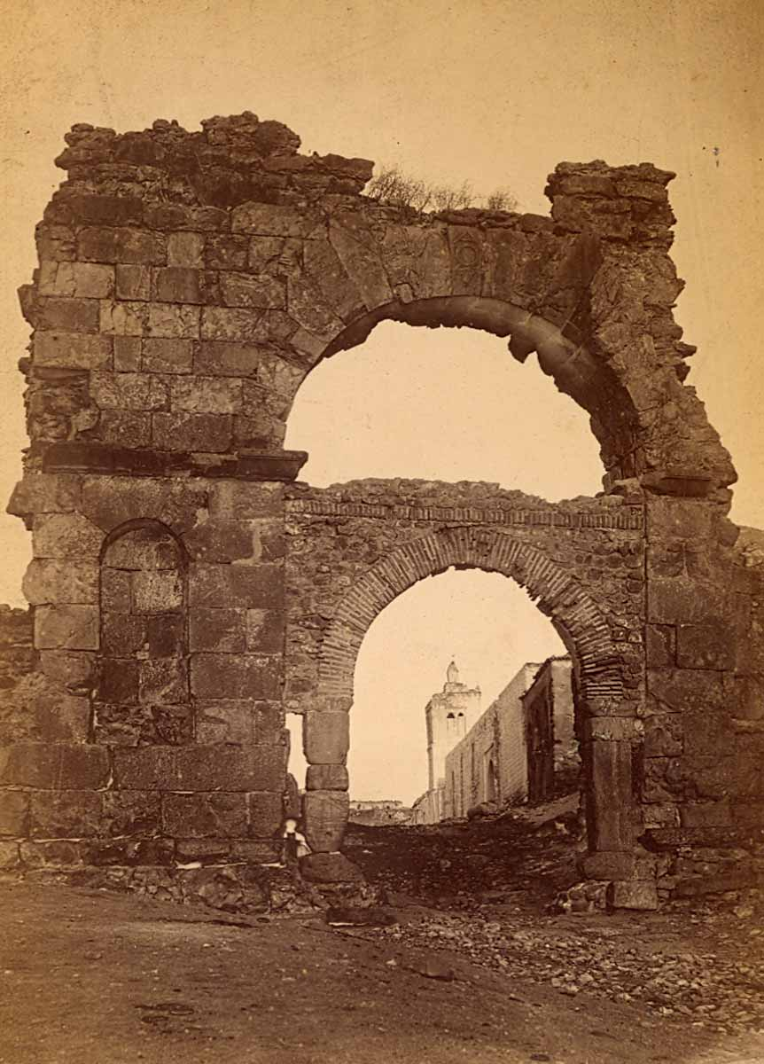 Ancient Roman gate ruins in Zaghouan, Tunisia.